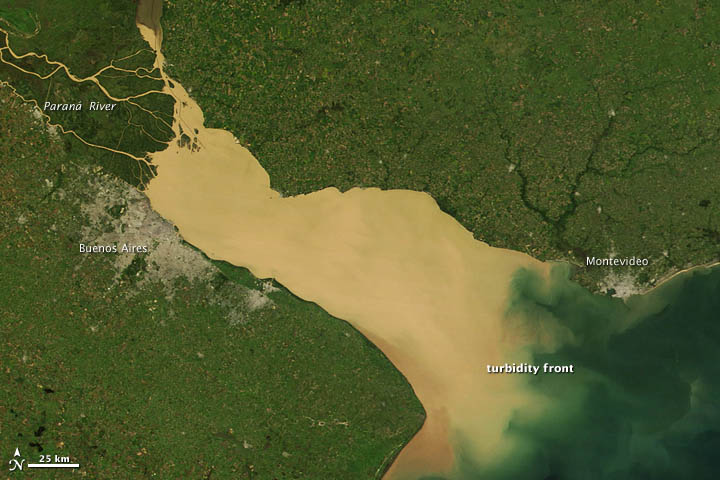 To download the full resolution and other files go to: On March 31, 2012, the Moderate Resolution Imaging Spectrometer (MODIS) on the Terra satellite captured this view of muddy water from the Paranà River flowing into the Río de La Plata, a funnel-shaped estuary on the eastern coast of South America with a drainage area that covers about 20 percent of the continent. The Paraná River, the second longest river in South America after the Amazon, supplies three-quarters of the fresh water that enters the estuary, with the remainder arriving from the Uruguay River. Topsoil running off agricultural fields upstream and flowing into the Paranà as a result of rainstorms likely produced the heavy load of brown sediment visible in the river water. The image offers a glimpse of the complicated mixing processes that occur at the interface of the muddy fresh water from the Paranà and the ocean water of the South Atlantic in an area known as a turbidity front. The location of the turbidity front varies over the course of the year. It tends to be in its westernmost position during the summer when river discharge is at a minimum and the predominant winds are from the northeast, while it reaches its easternmost position in the spring when strong winds from the southwest are present. NASA image by Jeff Schmaltz, LANCE/EOSDIS MODIS Rapid Response. Caption by Adam Voiland. The Earth Observatory's mission is to share with the public the images, stories, and discoveries about climate and the environment that emerge from NASA research, including its satellite missions, in-the-field research, and climate models. Like us on Facebook Follow us on Twitter Add us to your circles on Google+